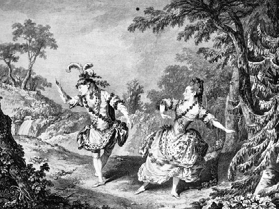 Print of M. De Dauberval and Mlle. Allard in Sylvie after a painting by Carmontelle. 18th century, Paris.